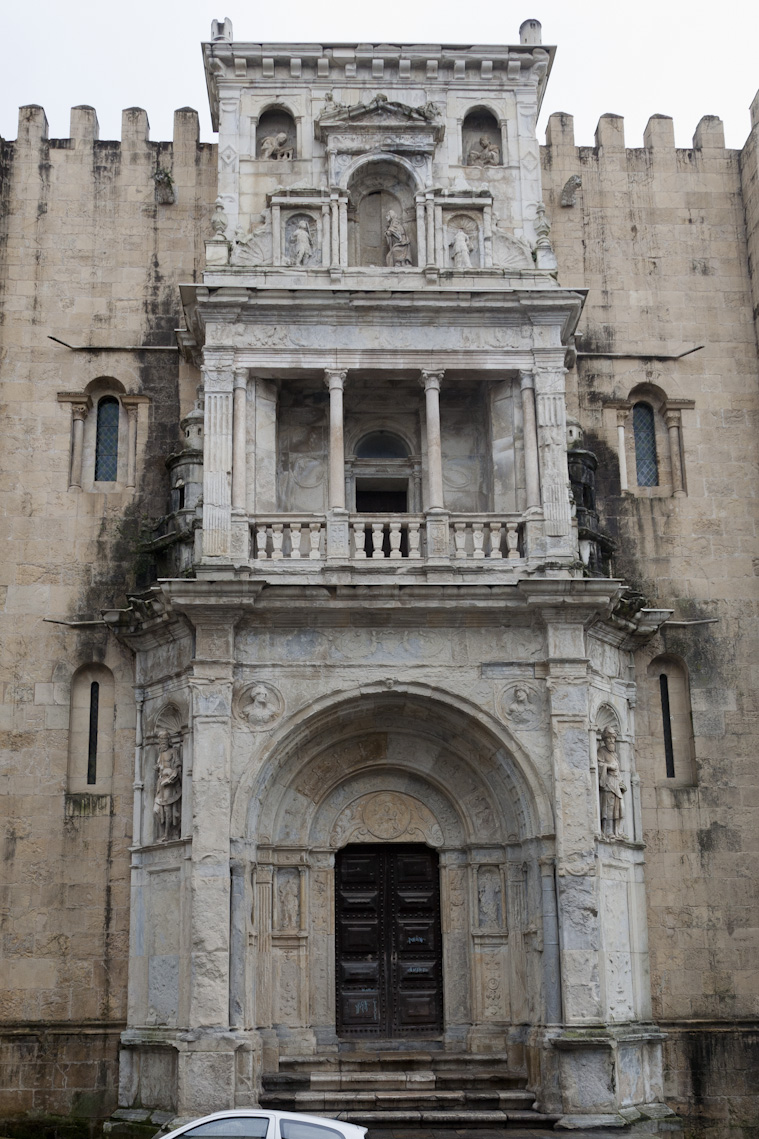 João de Ruão, Porta Especiosa, Sé Velha de Coimbra